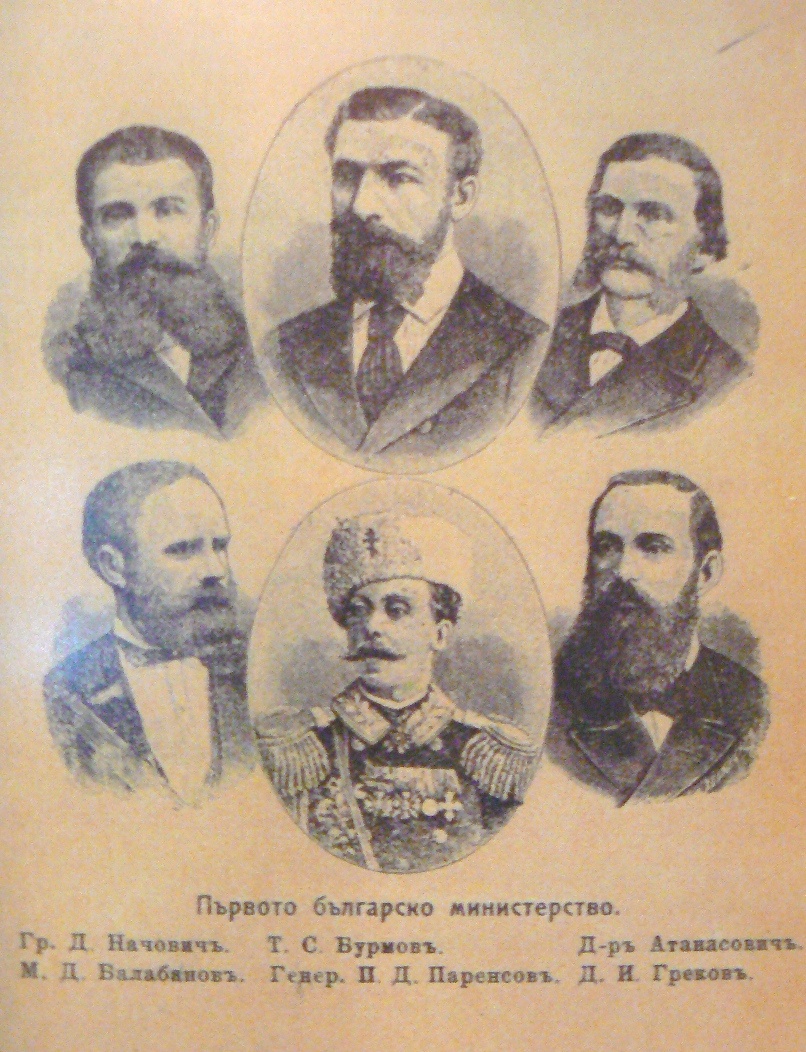 The members of the first Bulgarian Council of Ministers. Exhibit of the National History Museum of Bulgaria